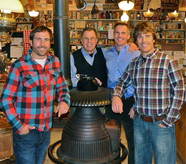 Photograph by Kimberly M. Wang